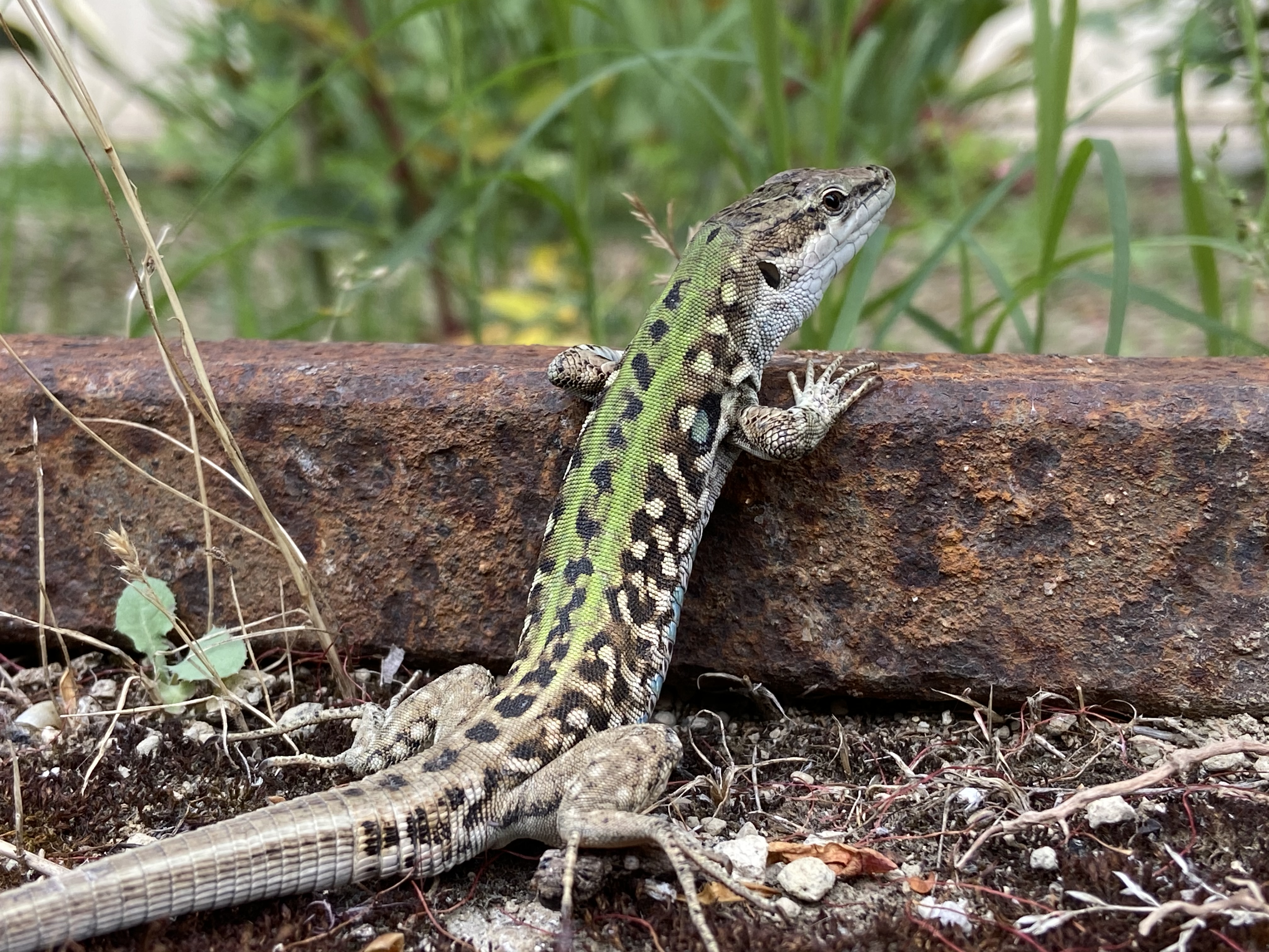 Italian wall lizard photographed in Avellino